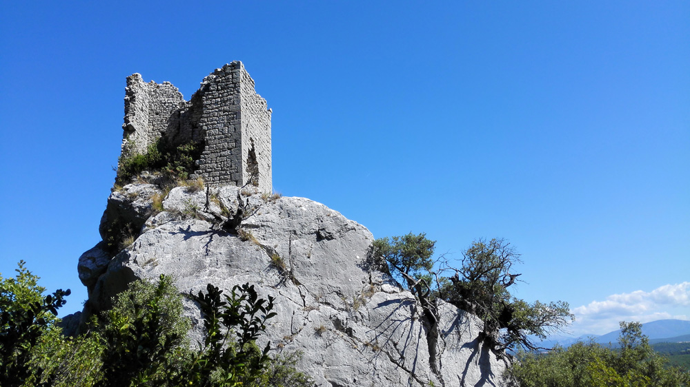 Templar tower of Castelar, La Roquette, Montmeyan, Var, France